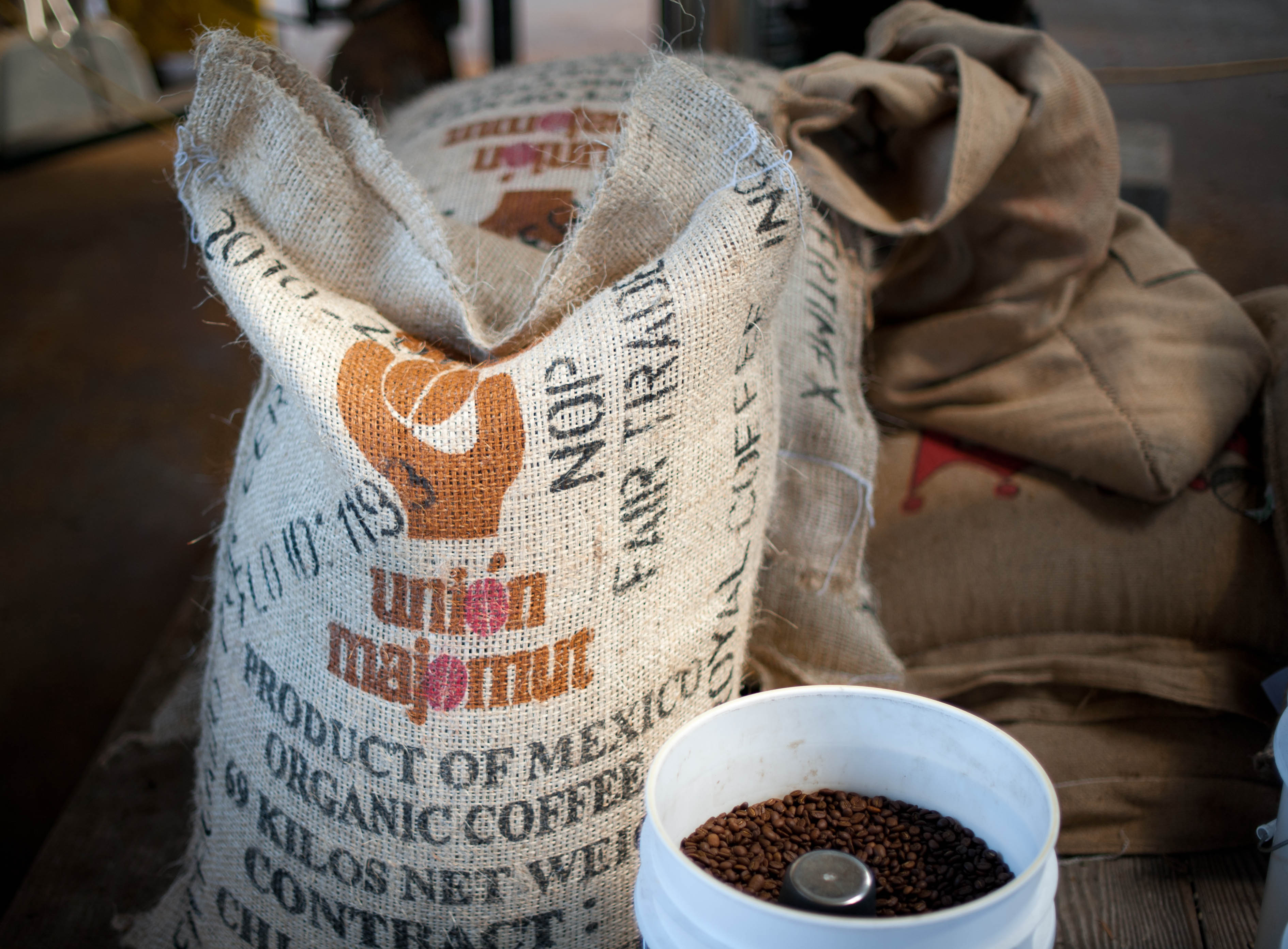 Bag of unroasted coffee beans